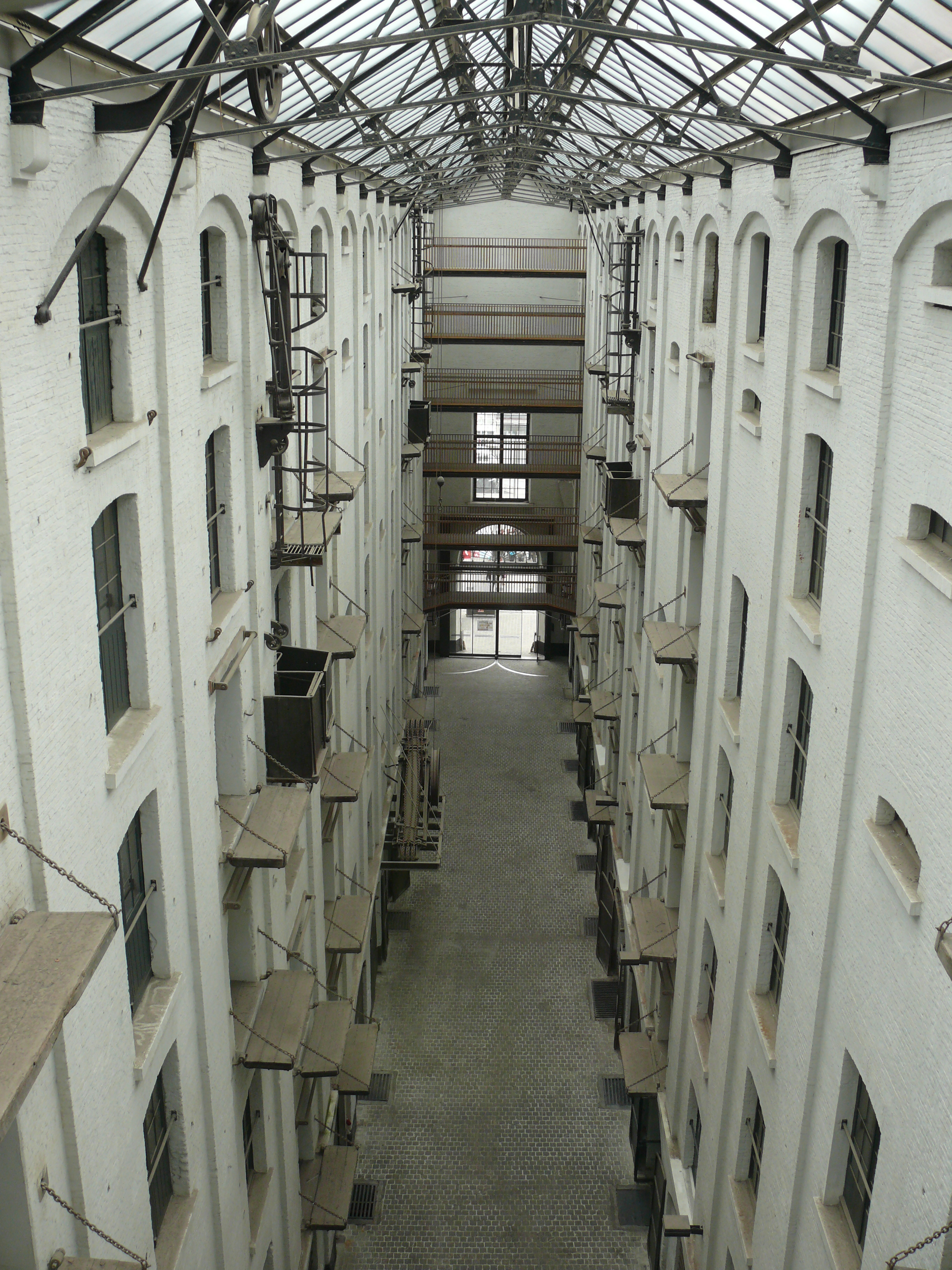 The Felixpakhuis (Felix Warehouse) in Antwerp. In the 19th century it was a warehouse for coffee, grain, cheese and tobacco. Now it houses the Minicipal Archives of Antwerp.